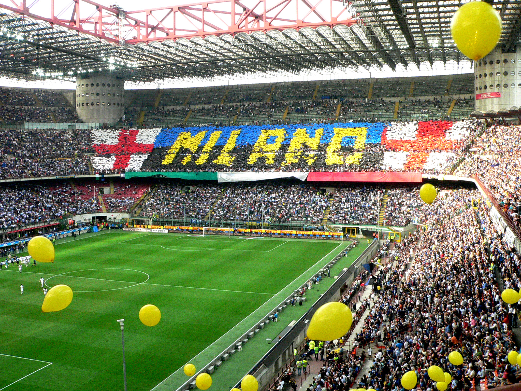 Stadio Giuseppe Meazza with Inter ultras creating display in 2007.